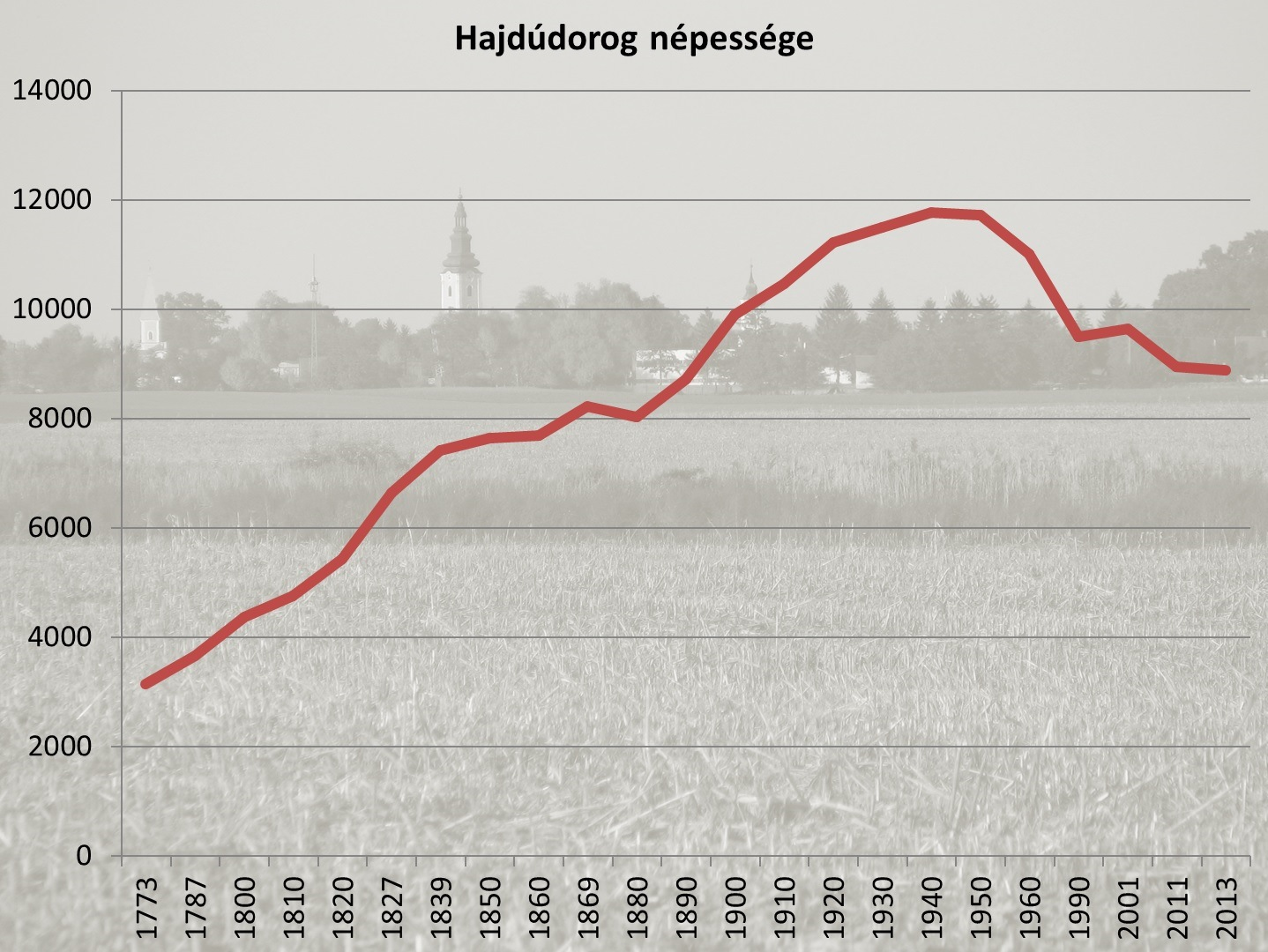 This picture depicts a chart about the population of Hajdúdorog, Hungary between 1773 and 2013. The chart is entirely my own work. The picture that can be seen in the background is my picture about the town.